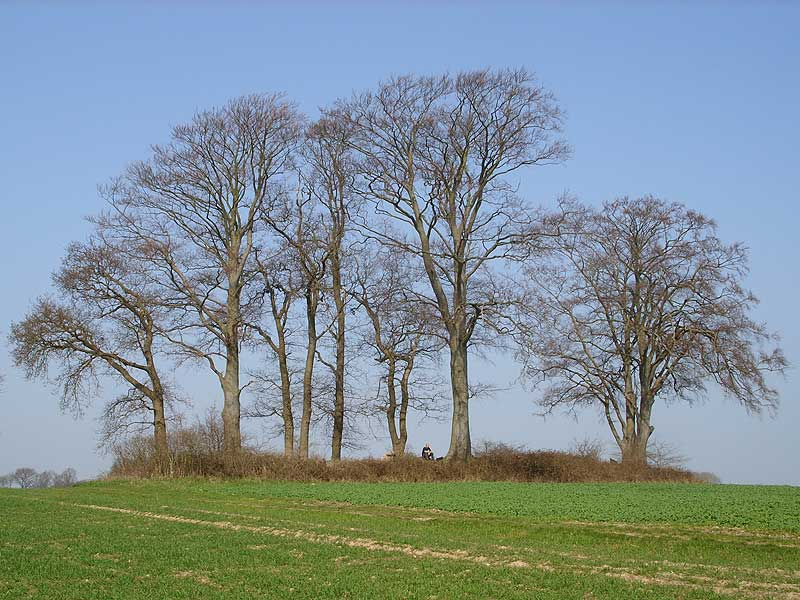 Long barrow near Birkenmoor Schwedeneck, Schleswig-Holstein, Germany.